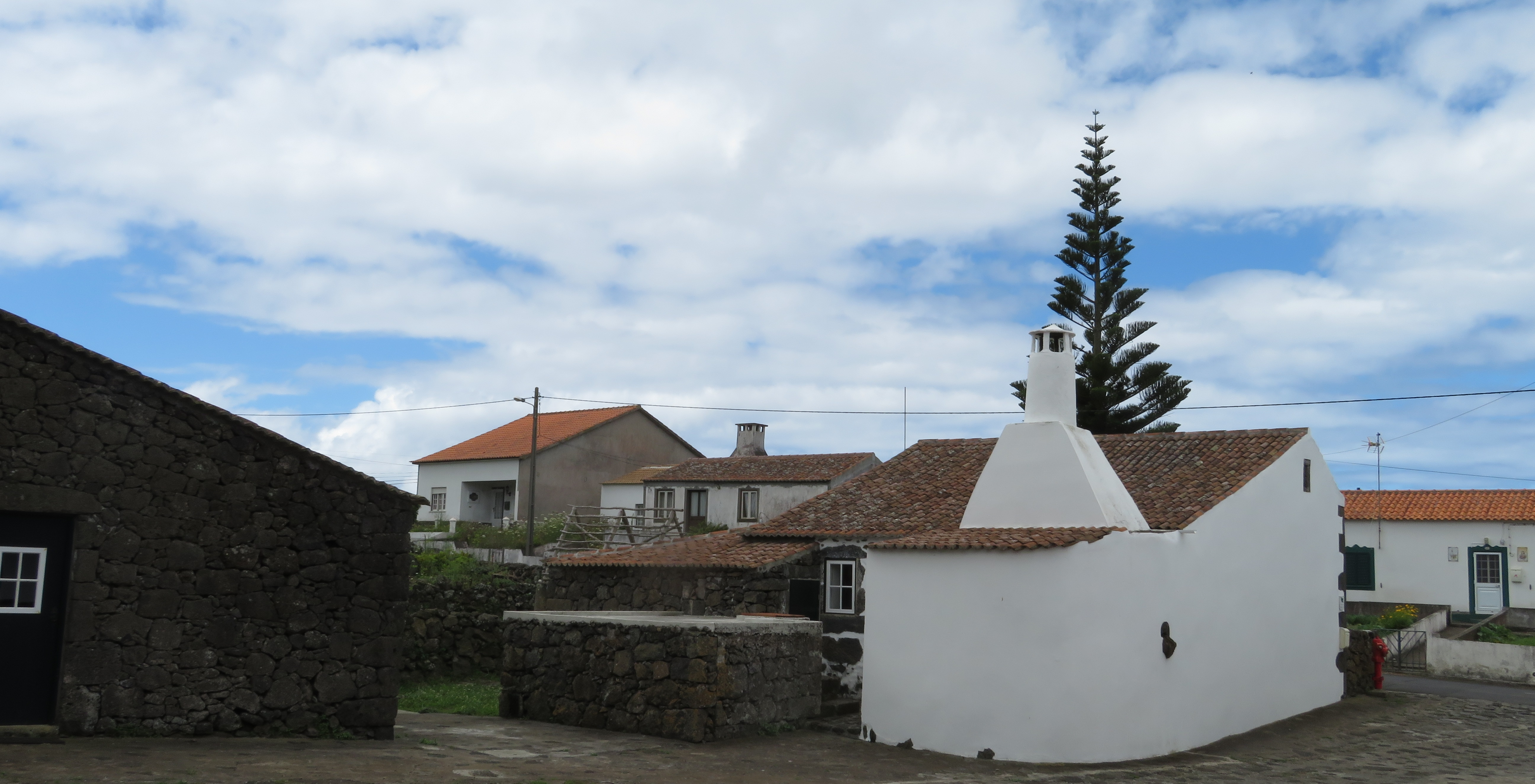 Museum "Museu da Vida Rural", Luz, Graciosa, Azores, Portugal